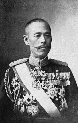 Masami Muraki